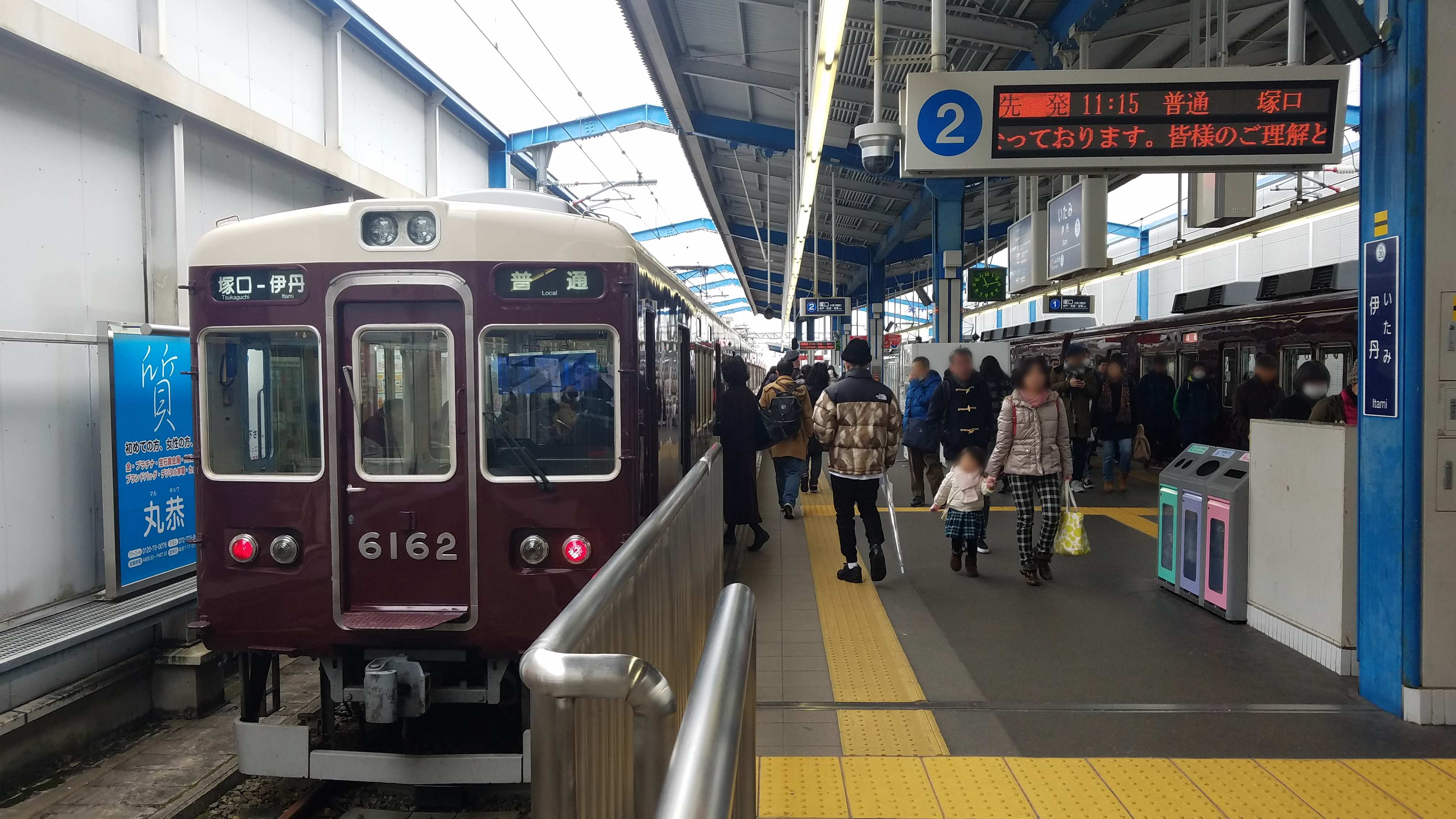 Hankyu 6000 series EMU set 6012 at Itami Station in Hyogo Prefecture, Japan